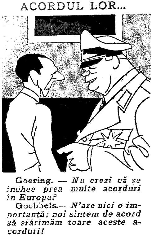 Caricature of Nazi politicians Joseph Goebbels and Hermann Göring, in the Romanian leftist magazine Viața Romînească, with the headline Acordul lor... ("Their Agreement"). In the caption, Göring asks: "Wouldn't you say there's too many agreements being signed in Europe?". Goebbels: "No matter; we agree to smash down all of these agreements."